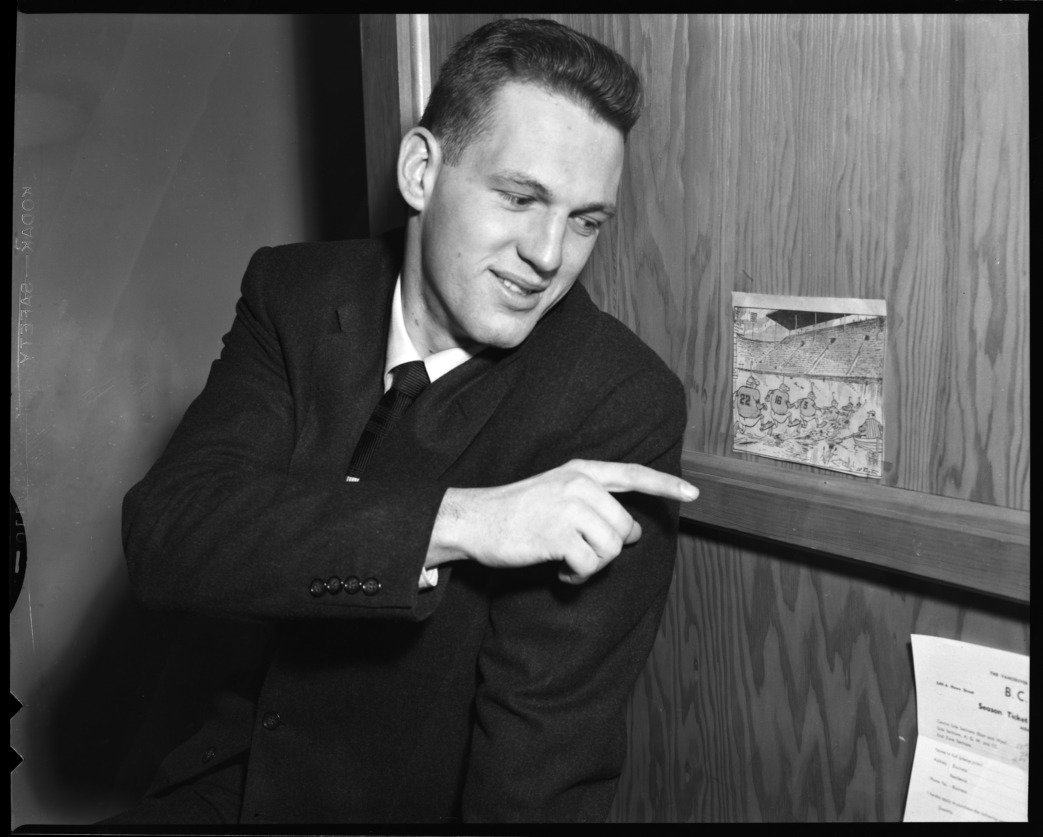 Don George pro football player with the BC Lions VPL Accession Number: 60739 Date: February 14, 1955 Photographer/Studio: Province Newspaper Sedawie, Gordon F. Topic: Football players Person: George, Don Organization: B.C. Lions Football Club Location: British Columbia More information on our historical photograph collection